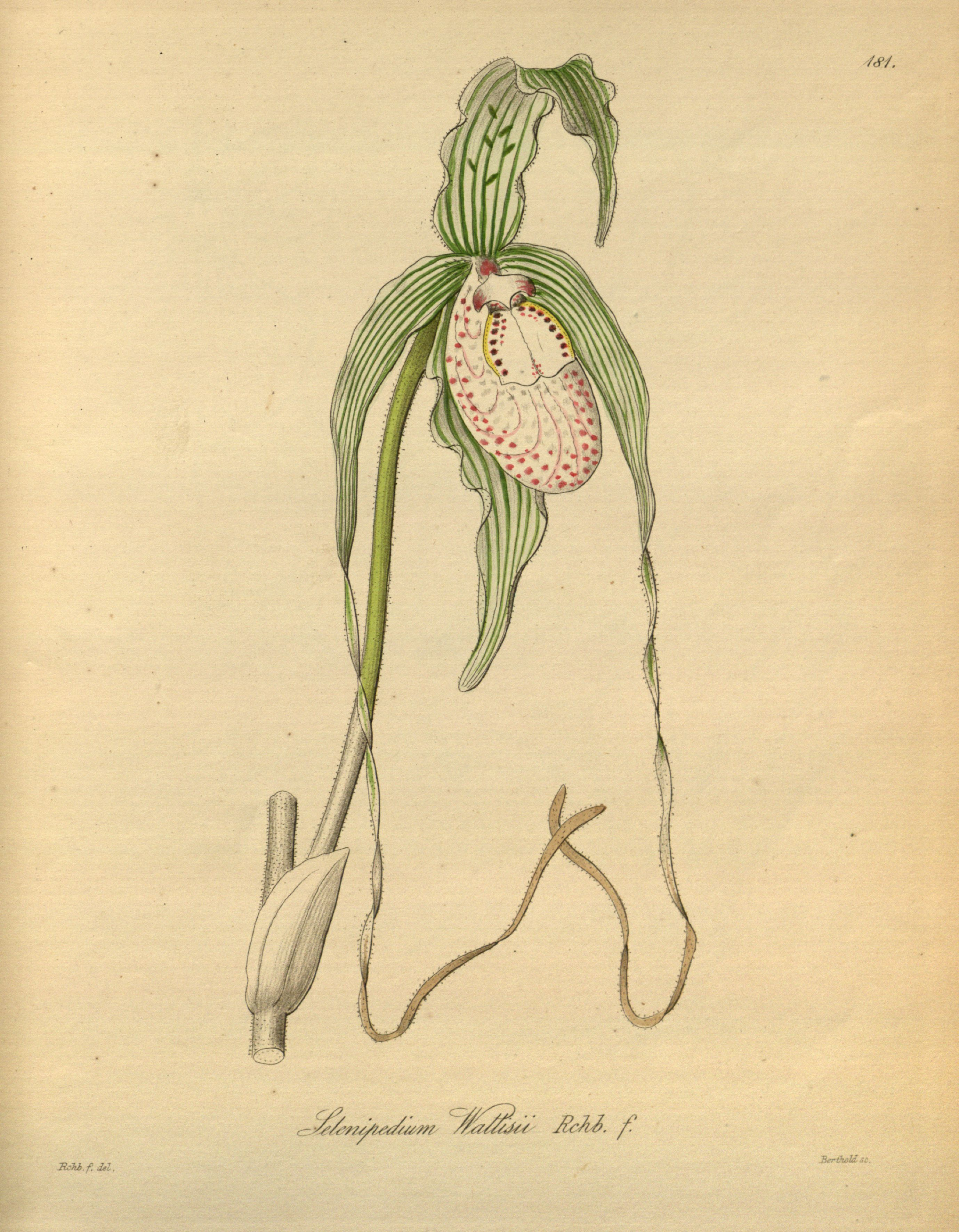 Illustration of Phragmipedium warszewiczianum (as syn. Selenipedium wallisii)